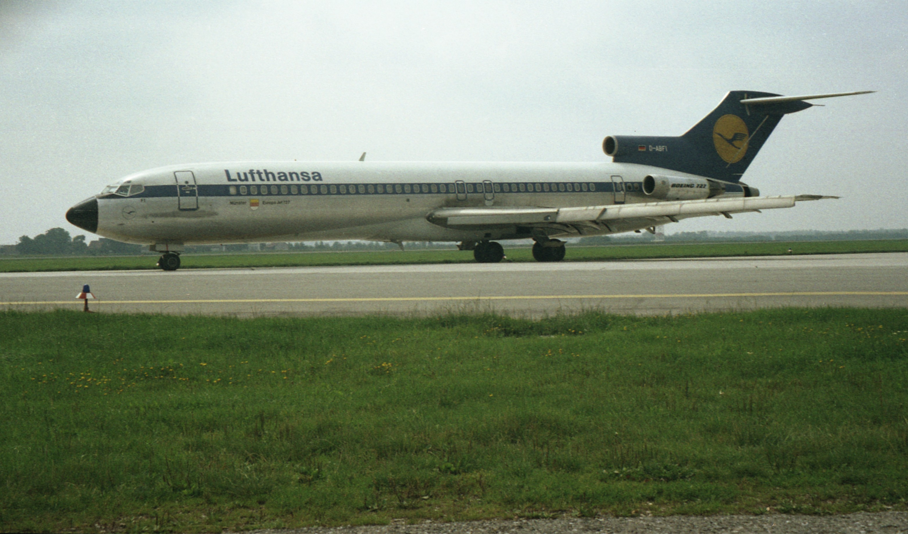 Lufthansa Boeing 727 (D-ABFI, "Münster") at Munich-Riem Airport